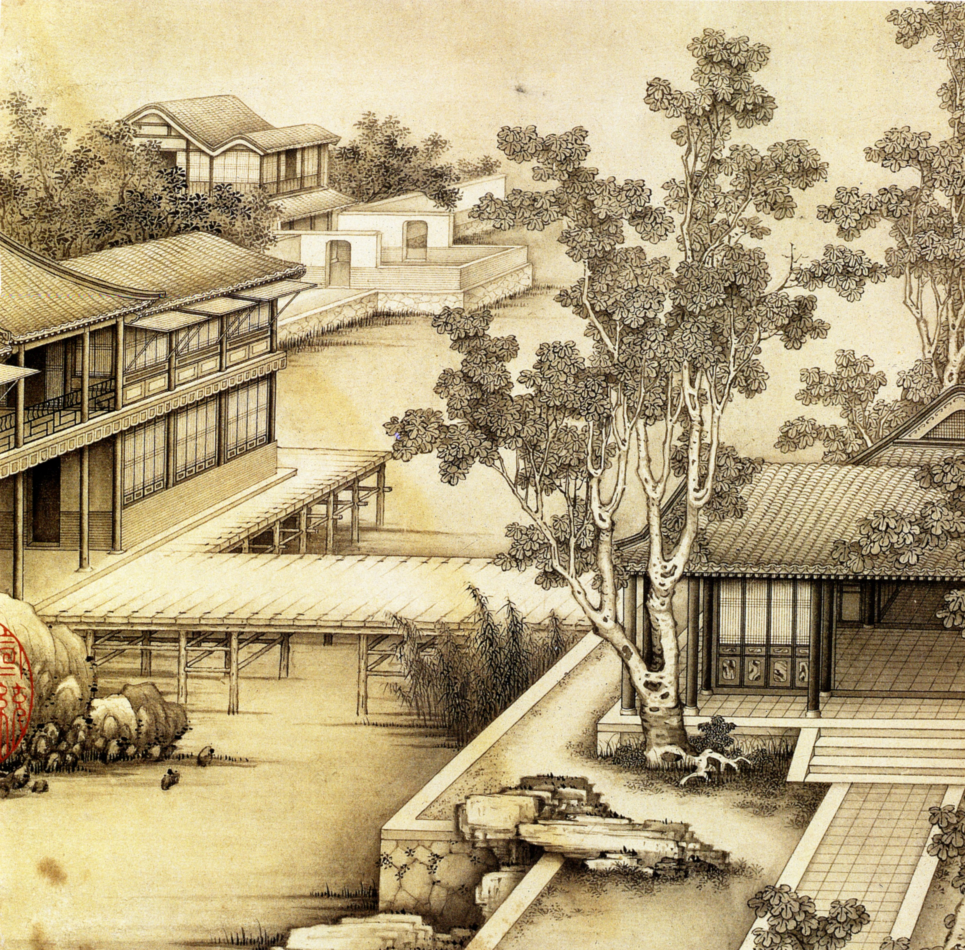 Leaf 2 from the painter's album entitled "Landscapes" (山水). Ink on paper. Width 26.4 cm, Height 26.2 cm. Located in National Palace Museum, Taipei.